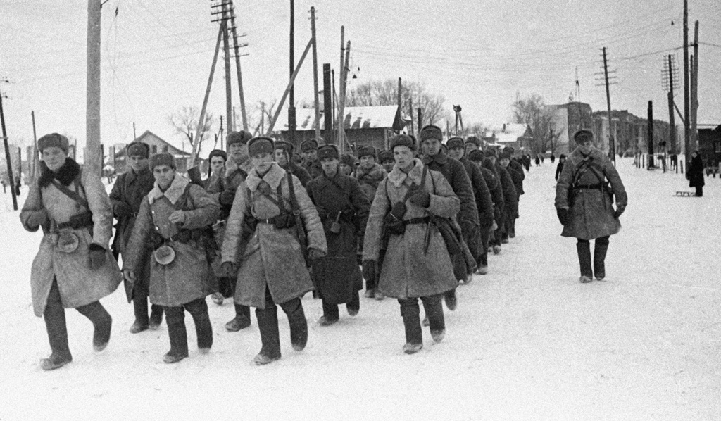 “Soldiers on March”. An infantry unit on the march.